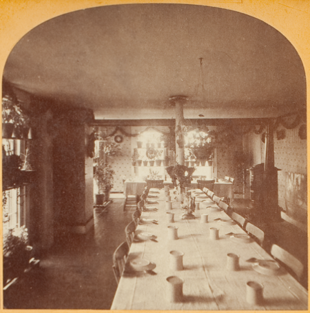 Peters House